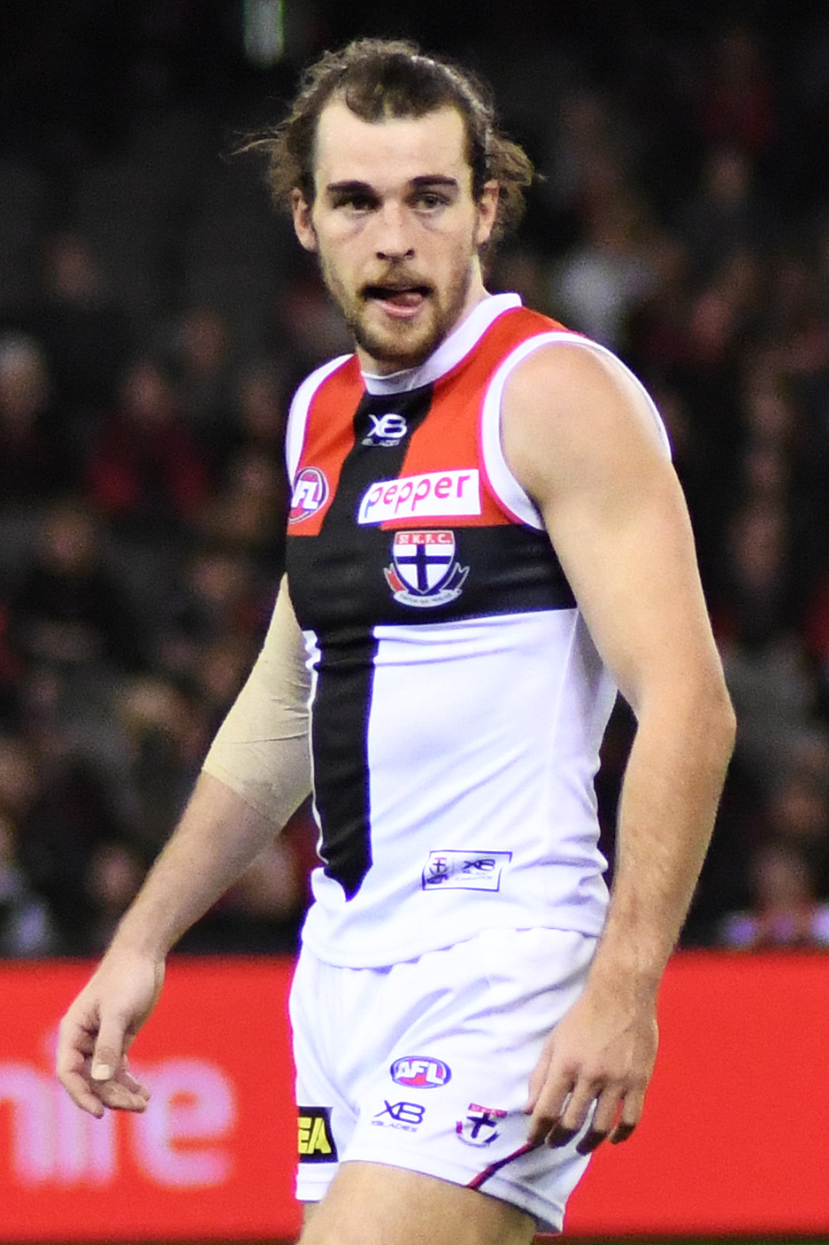 Daniel McKenzie of St Kilda during the 2018 AFL round 21 match between Essendon and St Kilda at Etihad Stadium on Friday, 10 August 2018 in Melbourne, Victoria.